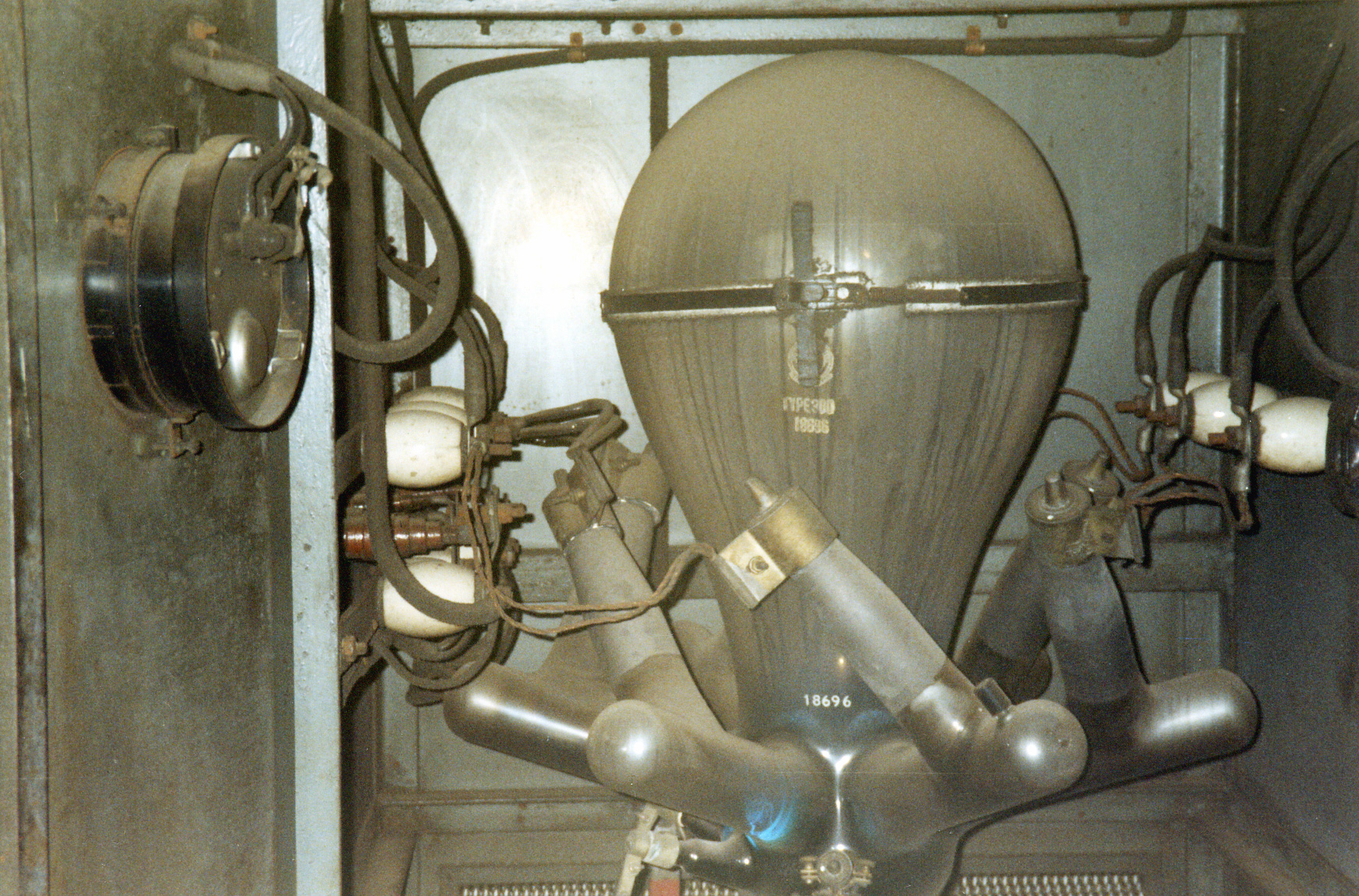 In-service device, as you can see the blue light phenomena in the center bottom (the liquid mercury cathode spot)